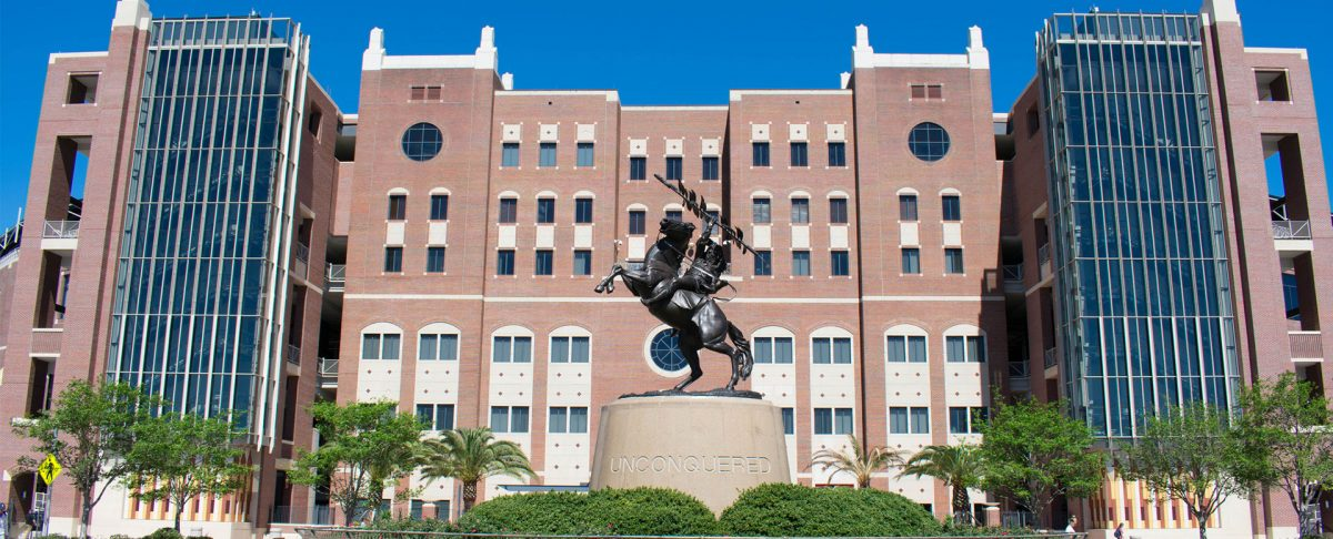 Unconquered Statue and the southern entrance of Doak Campbell Stadium